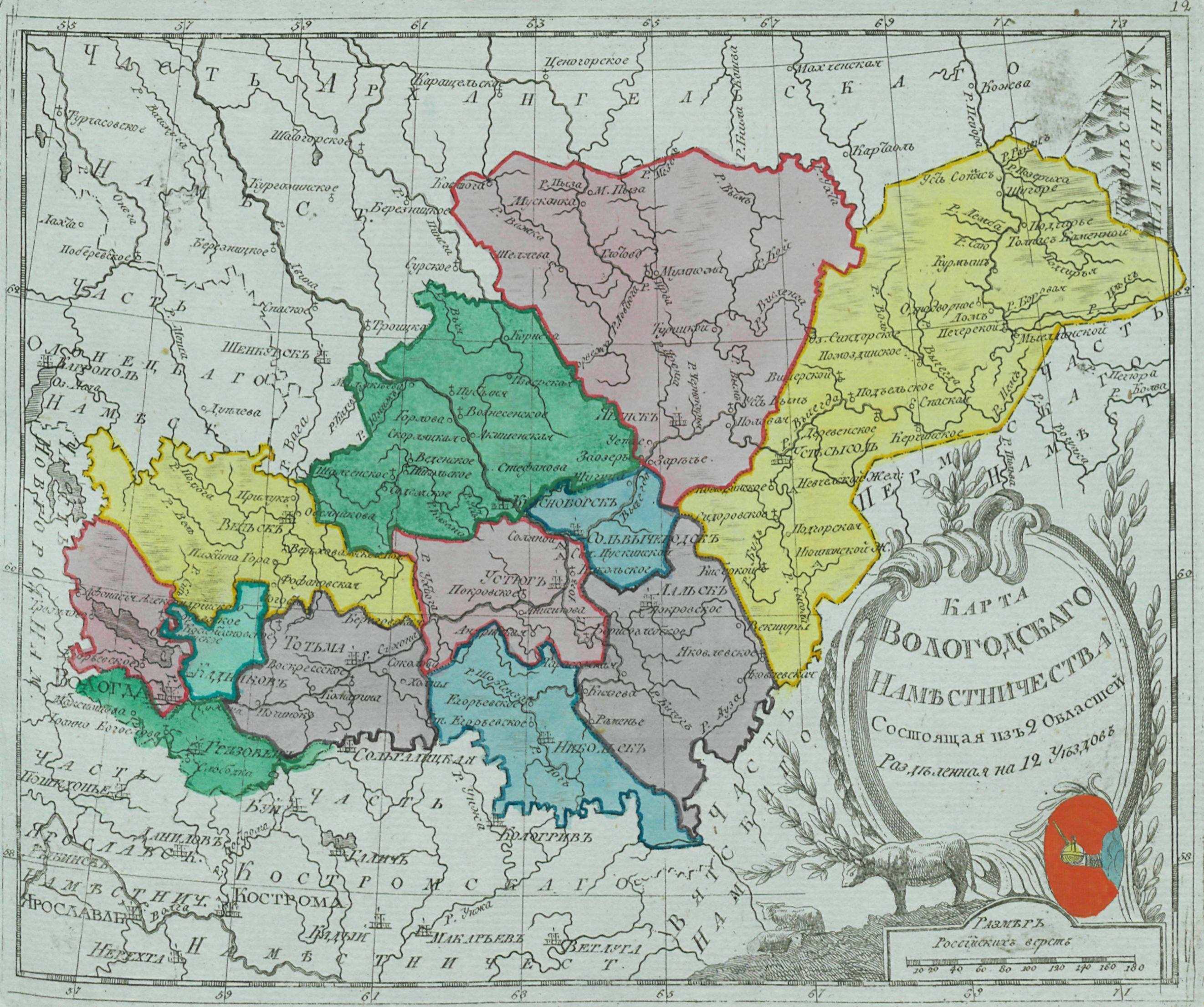 Small atlas of the Russian Empire (1792). Map of Vologda Namestnichestvo (map 11).